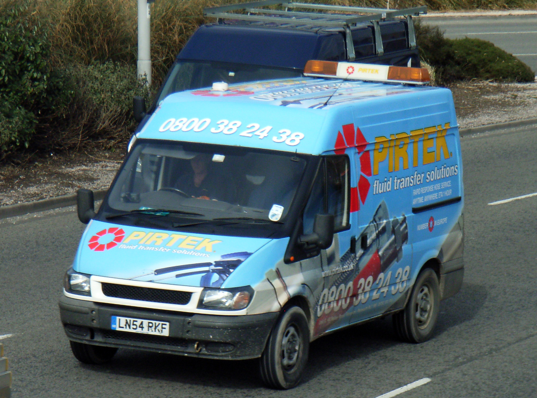 Pirtek van (Ford Transit 2000) in Plymouth, England.